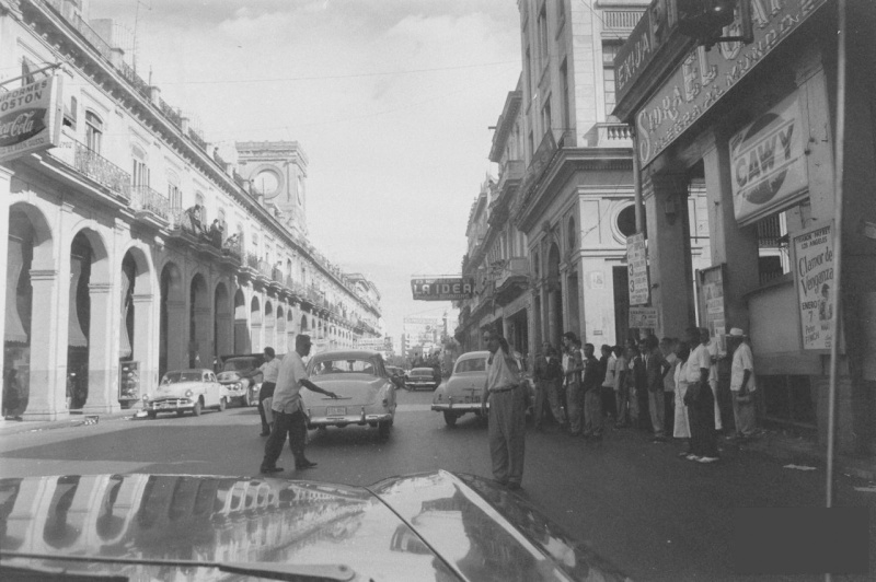 Plaza-del-vapor 3. Havana, Cuba